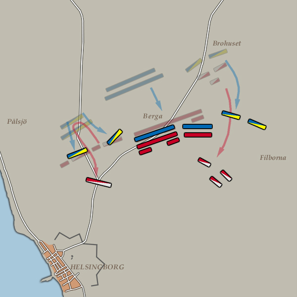 Scheme over last stages of the battle. Both the danish wings have fled and the entire danish line is failing.